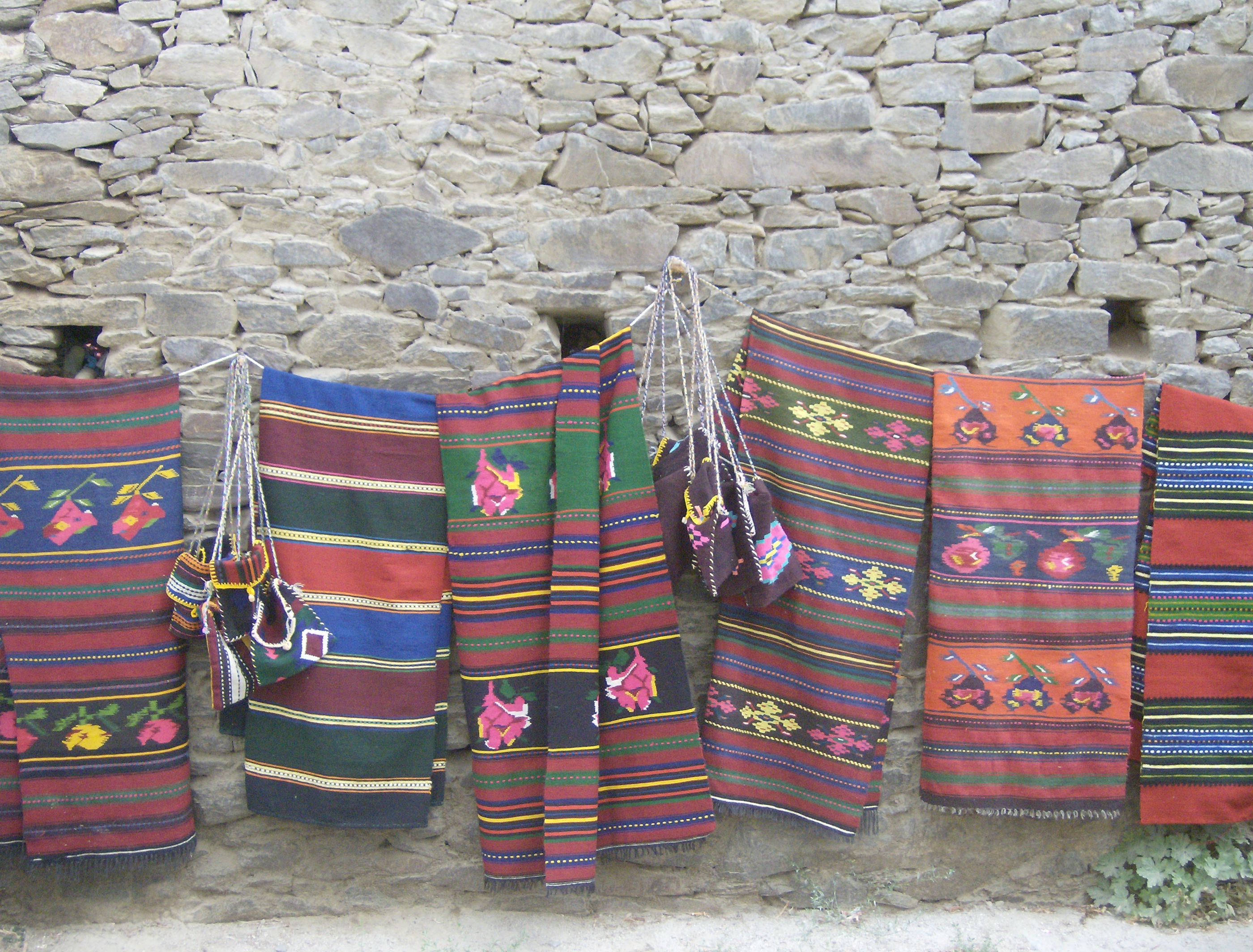 Rugs from Kovachevitsa